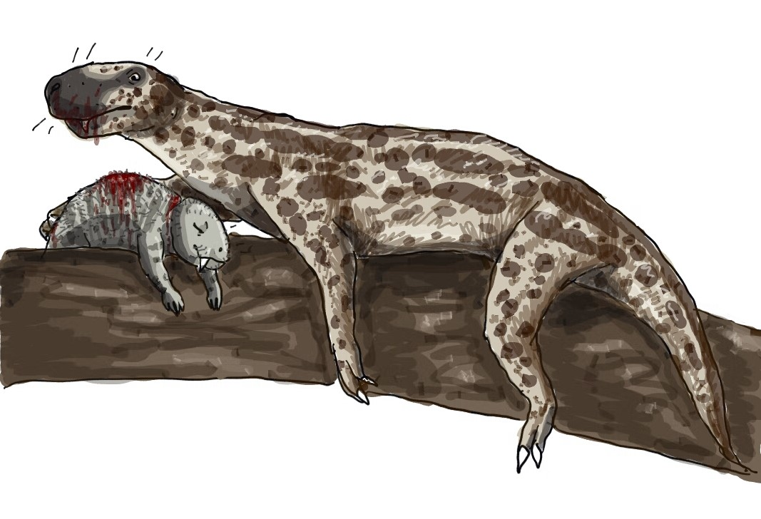 Lycaenops up a tree with its prey; a small dicynodont, most likely robertia.